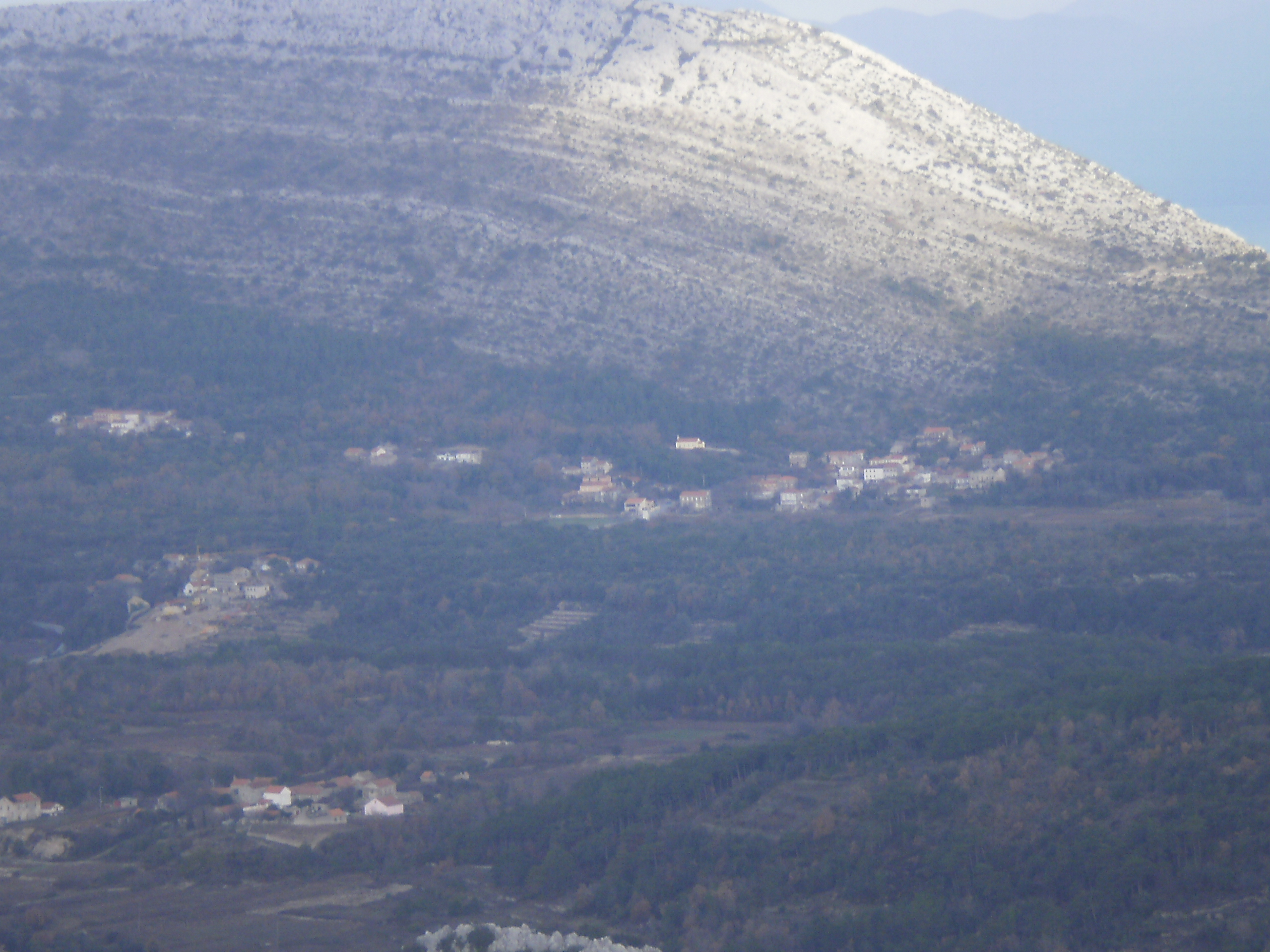 Panorama photo of Oskorušno from St. George peak OLYMPUS DIGITAL CAMERA